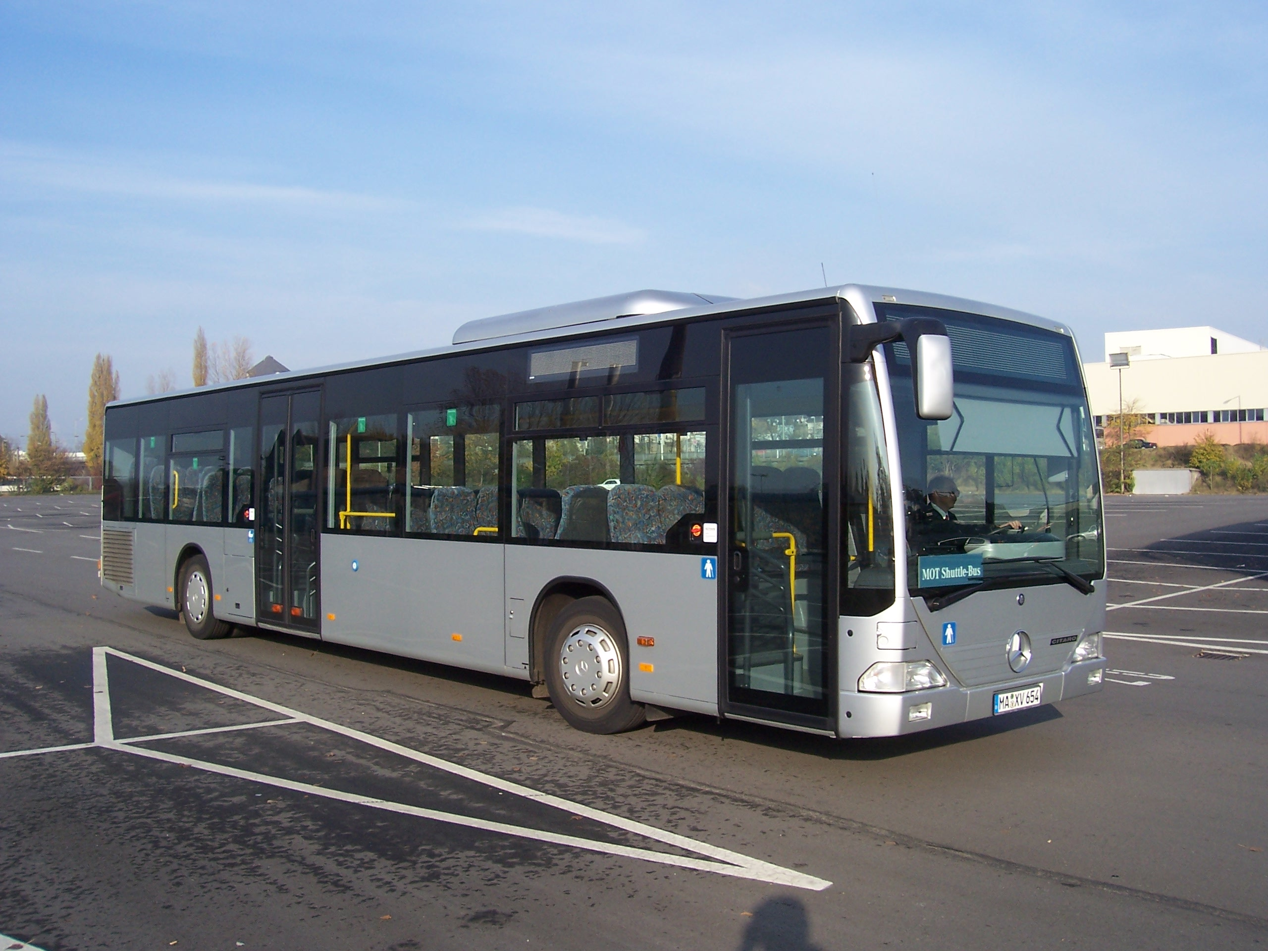 An EvoBus/Mercedes-Benz Citaro at MOT 2005 in Mannheim, Germany My own photo from 13-nov-2005